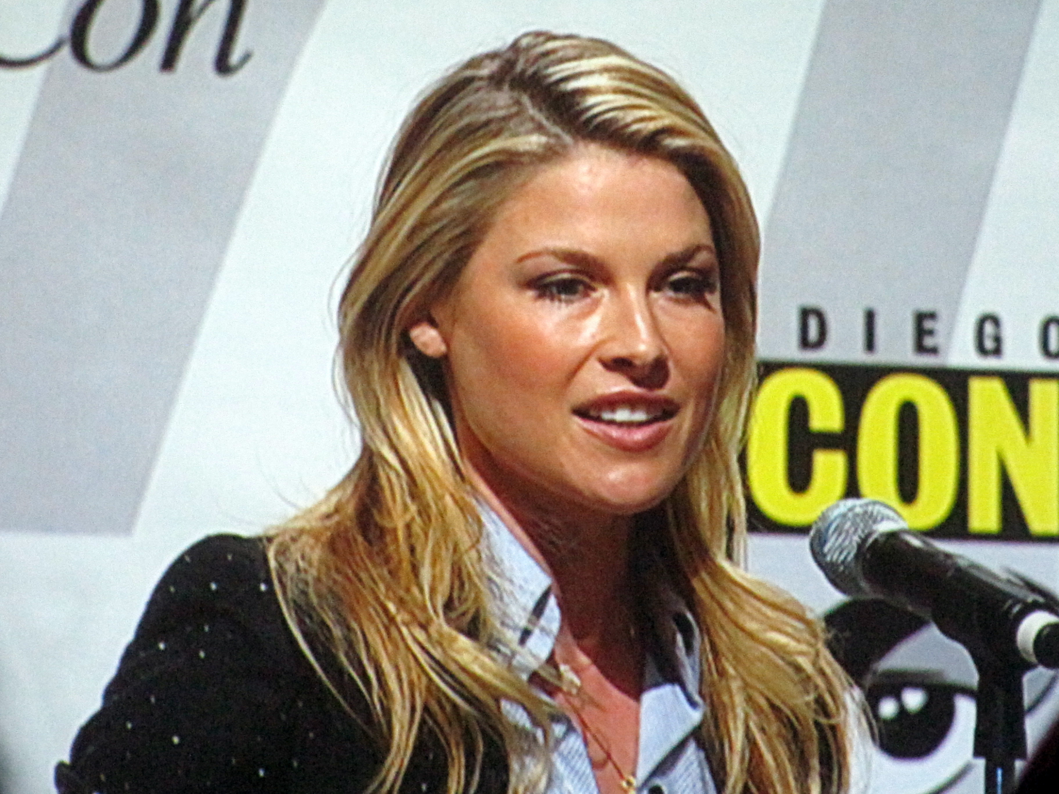 Actress Ali Larter participating in a panel on Resident Evil: Afterlife at WonderCon 2010.